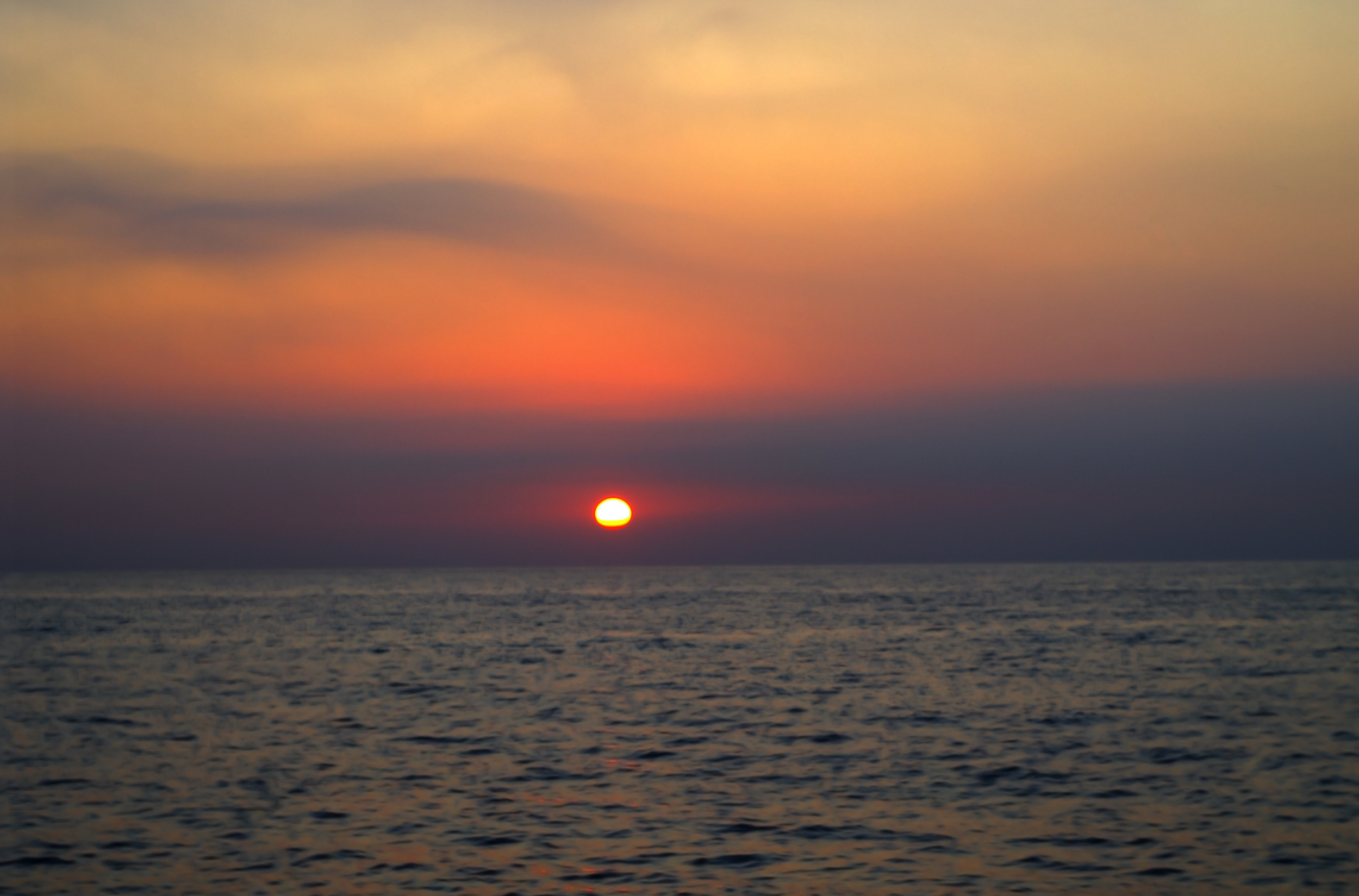 Sunrise near Burçlar Sitesi in Kumkuyu, Erdemli - Mersin, Turkey.